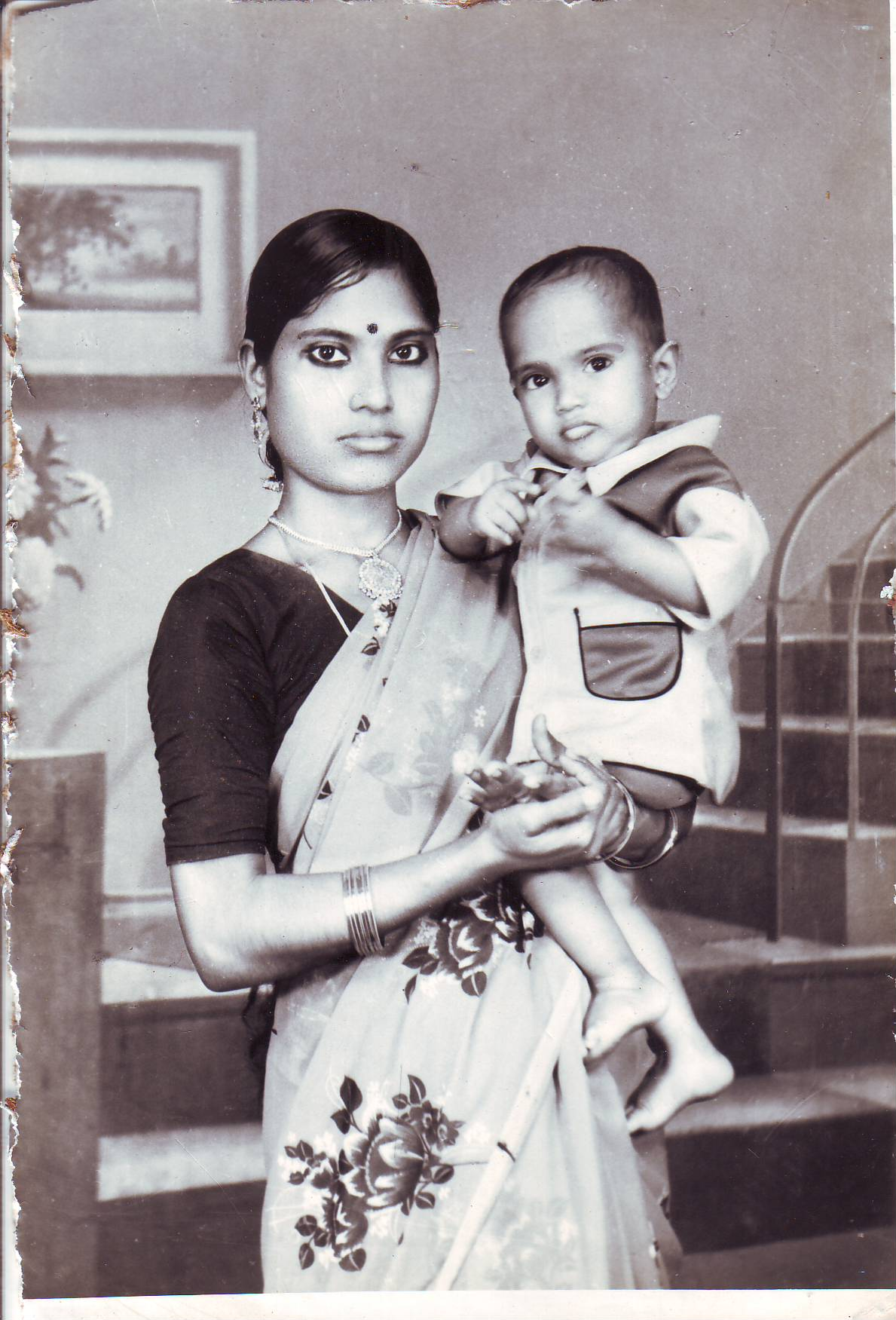 Seerla